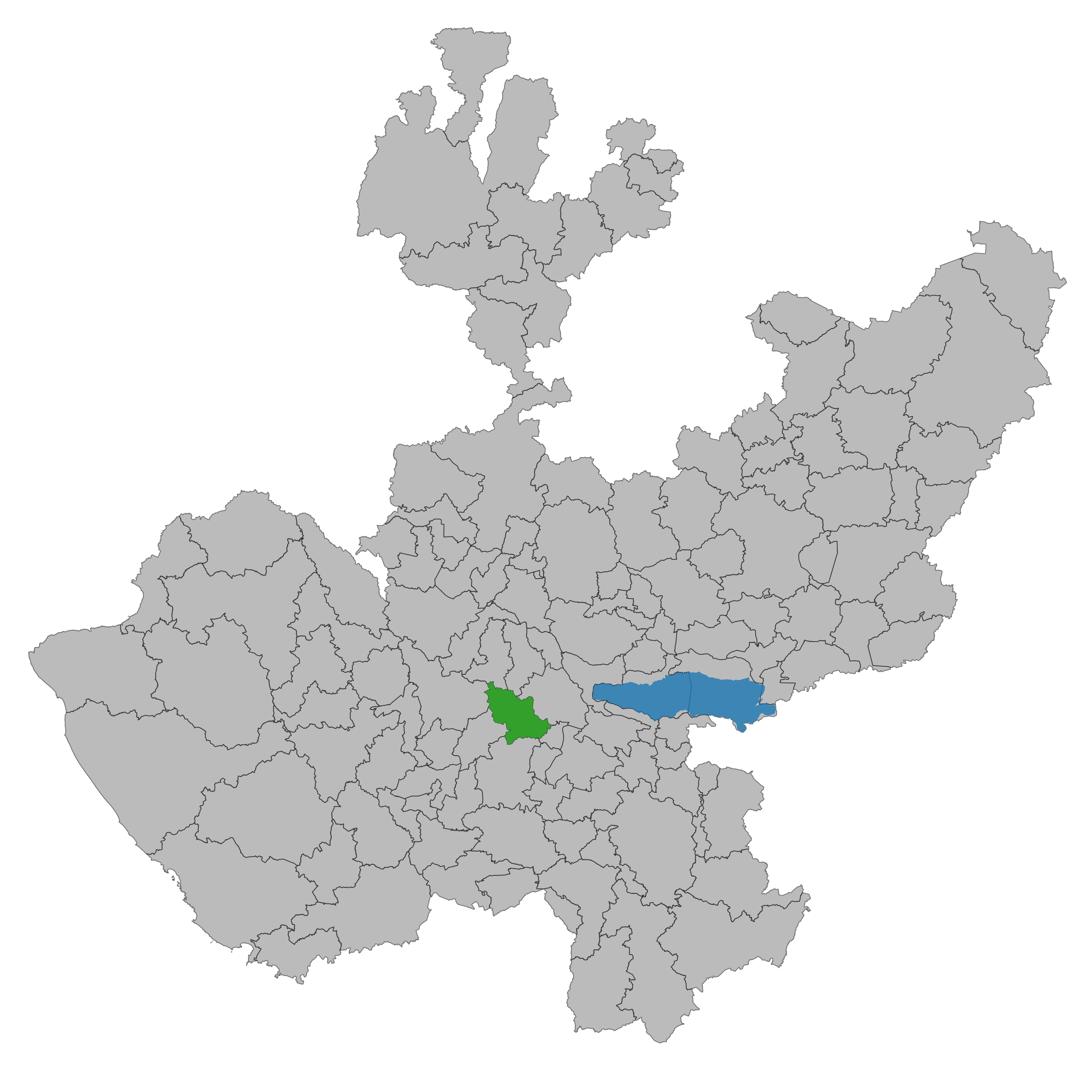 Municipality of Jalisco. Prepared with the software QGIS version 2.8.2 Wien & with information of SCINCE 2010 version 05/2013